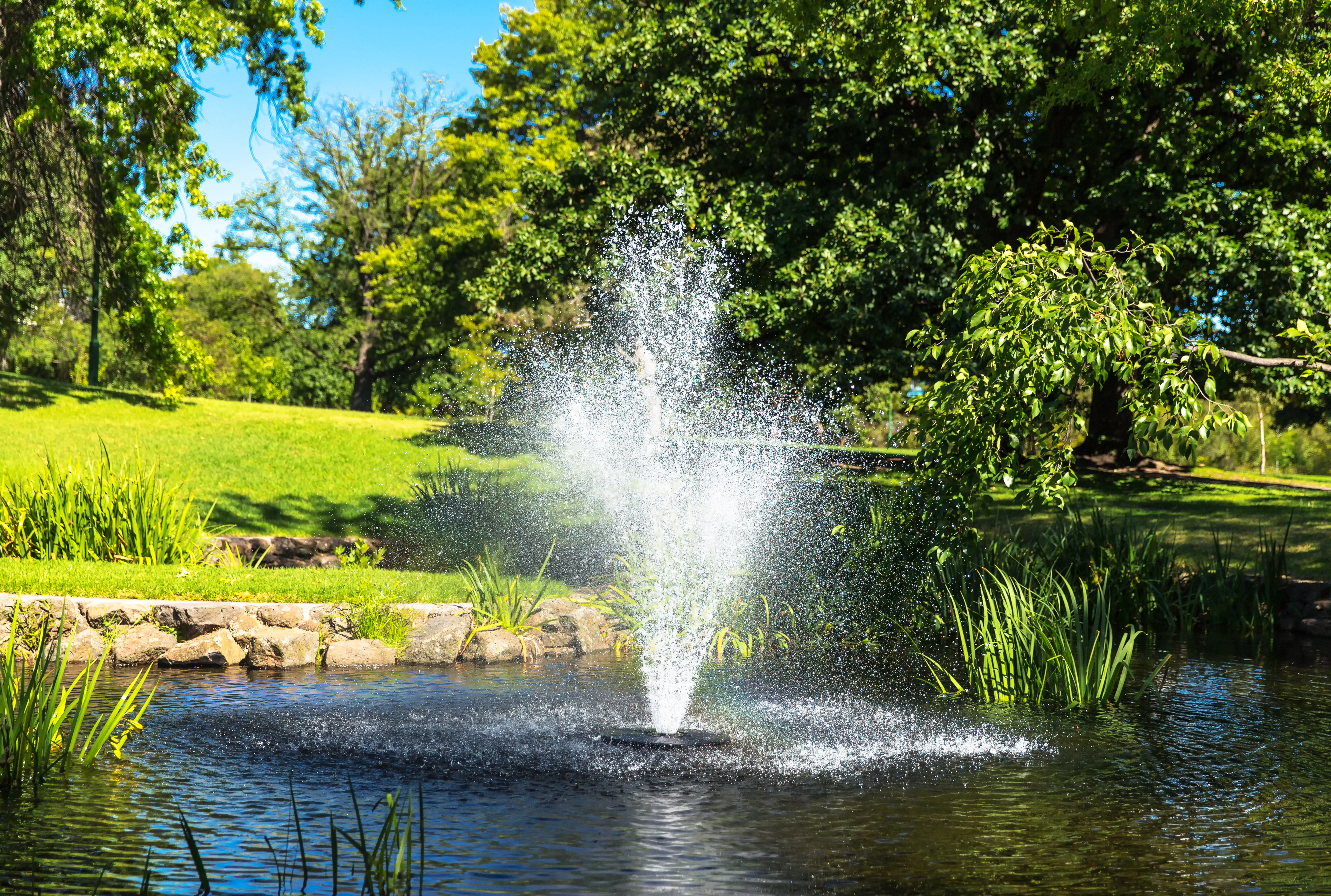 Photo taken in Royal Botanic Gardens, Melbourne VIC 3004, Australia